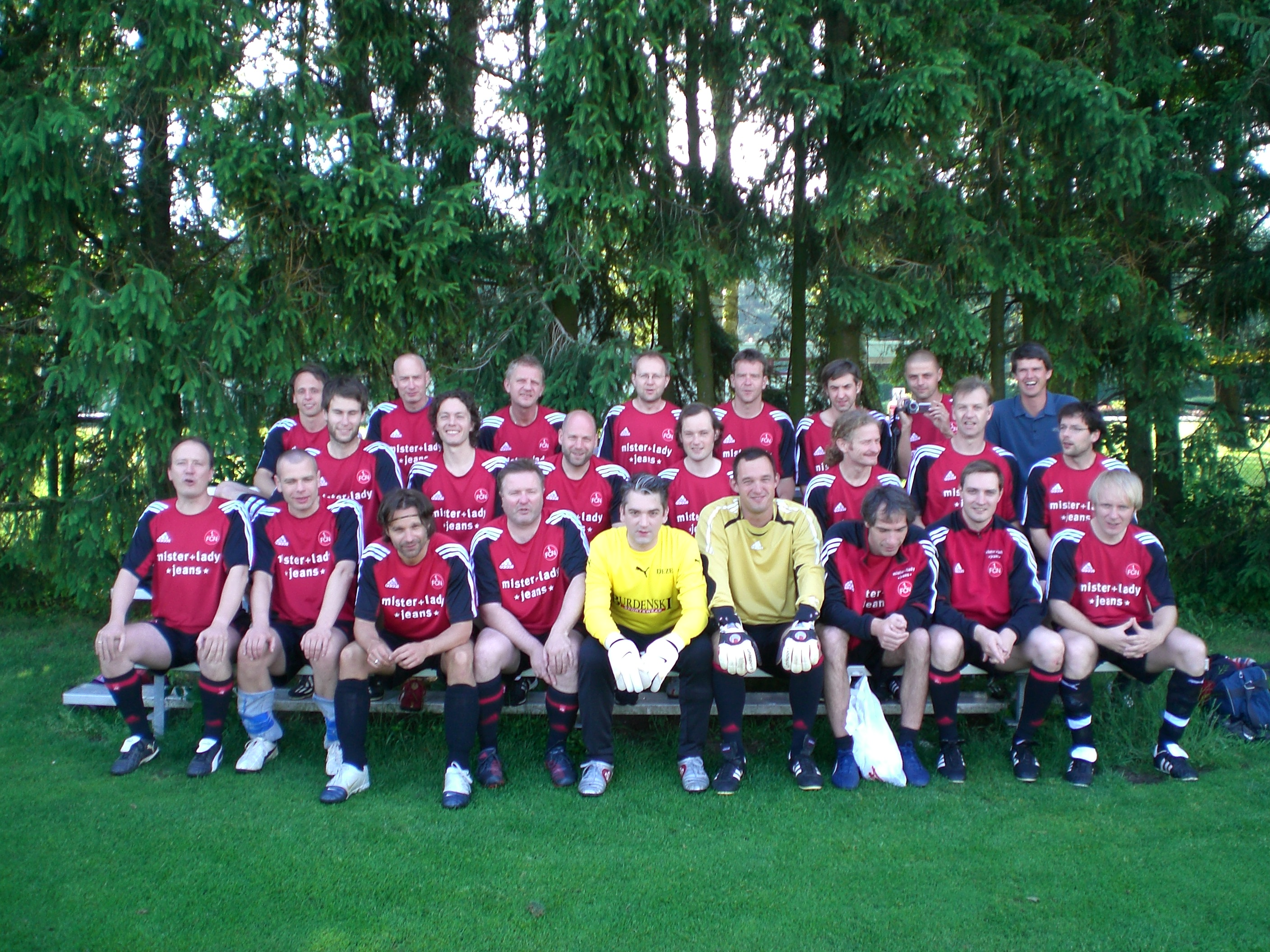 Autonama (National Writers' Football Team of Writers) during their Training Camp in Nuremberg, 2007